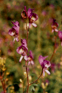 Purple phase, Northern wild monkshood (Aconitum noveboracense) FWS Great Lakes-Big Rivers Driftless Area NWR, 1991